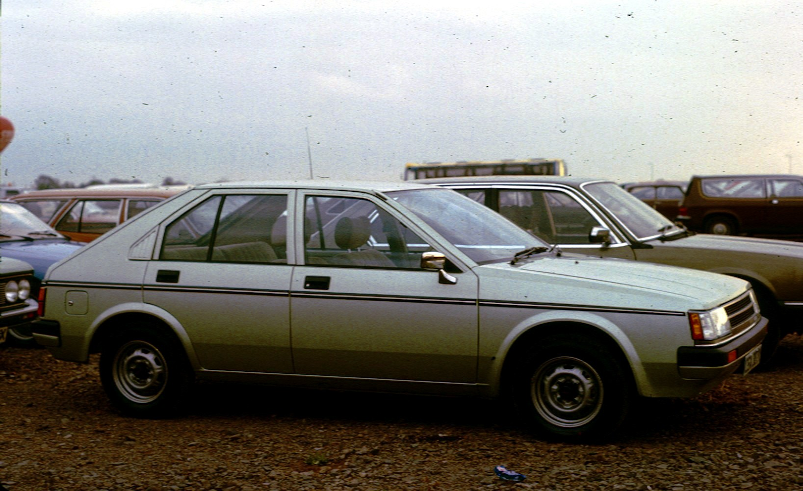 Nissan Cherry N12 in UK Car park